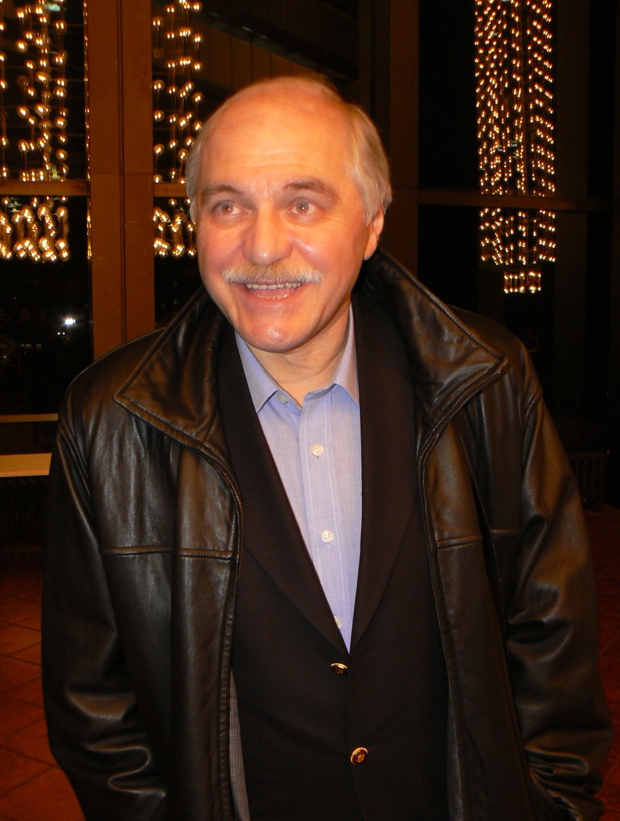 Bulgarian linguist and translator Vladko Murdarov